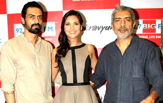 (L-R) Arjun Rampal, Esha Gupta and Prakash Jha, at the music launch of the movie, Chakravyuh.